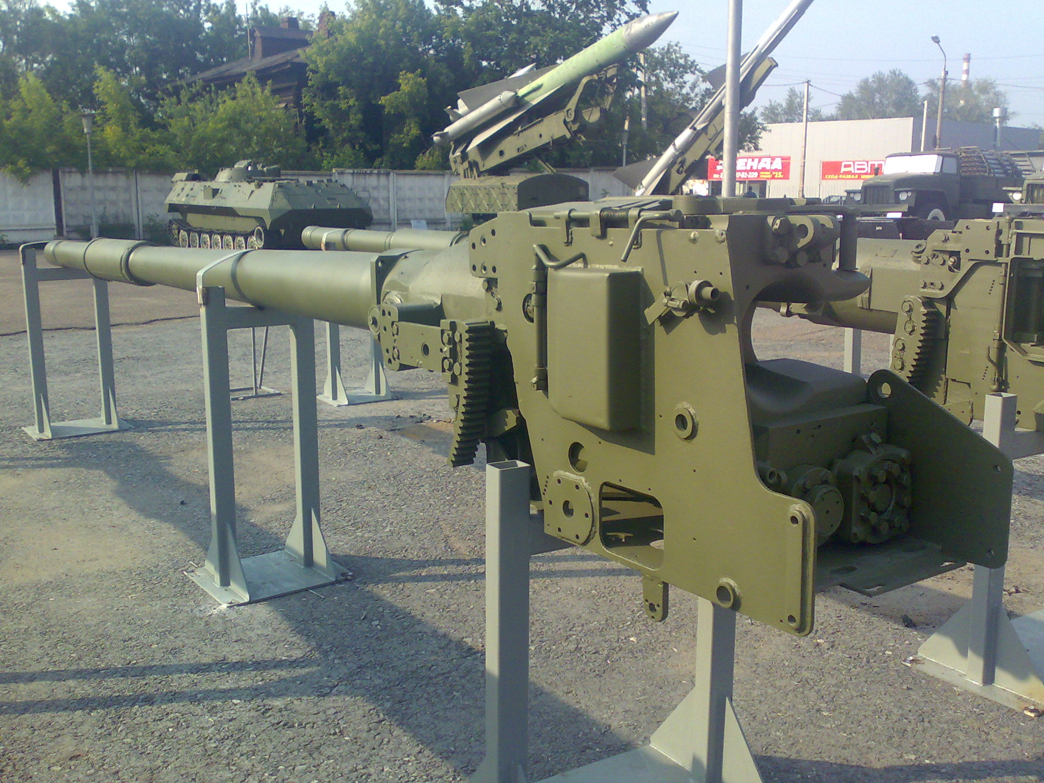 115-mm 2A20 tank gun. Motovilikha Plants museum in Perm. Russia.